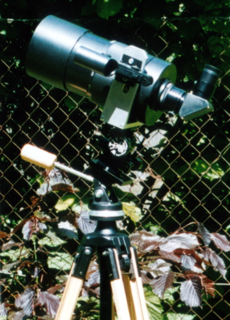 reflector telephoto lens «MC MTO-11CA» with minimum equipment as astronomical telescope